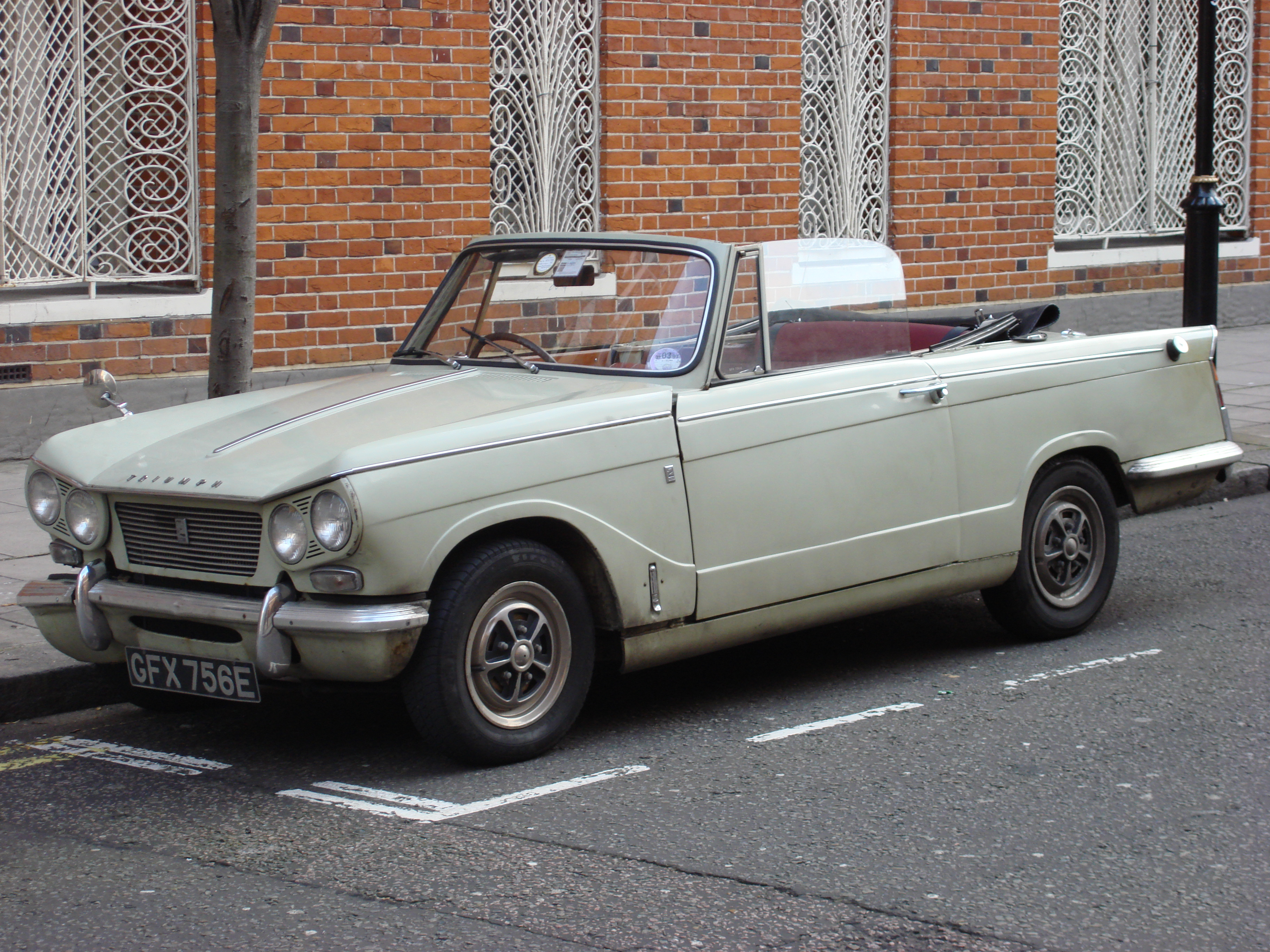 A Mint Green Triumph Vitesse 2-Litre convertible. photographed at the northern end of Queensway London W2